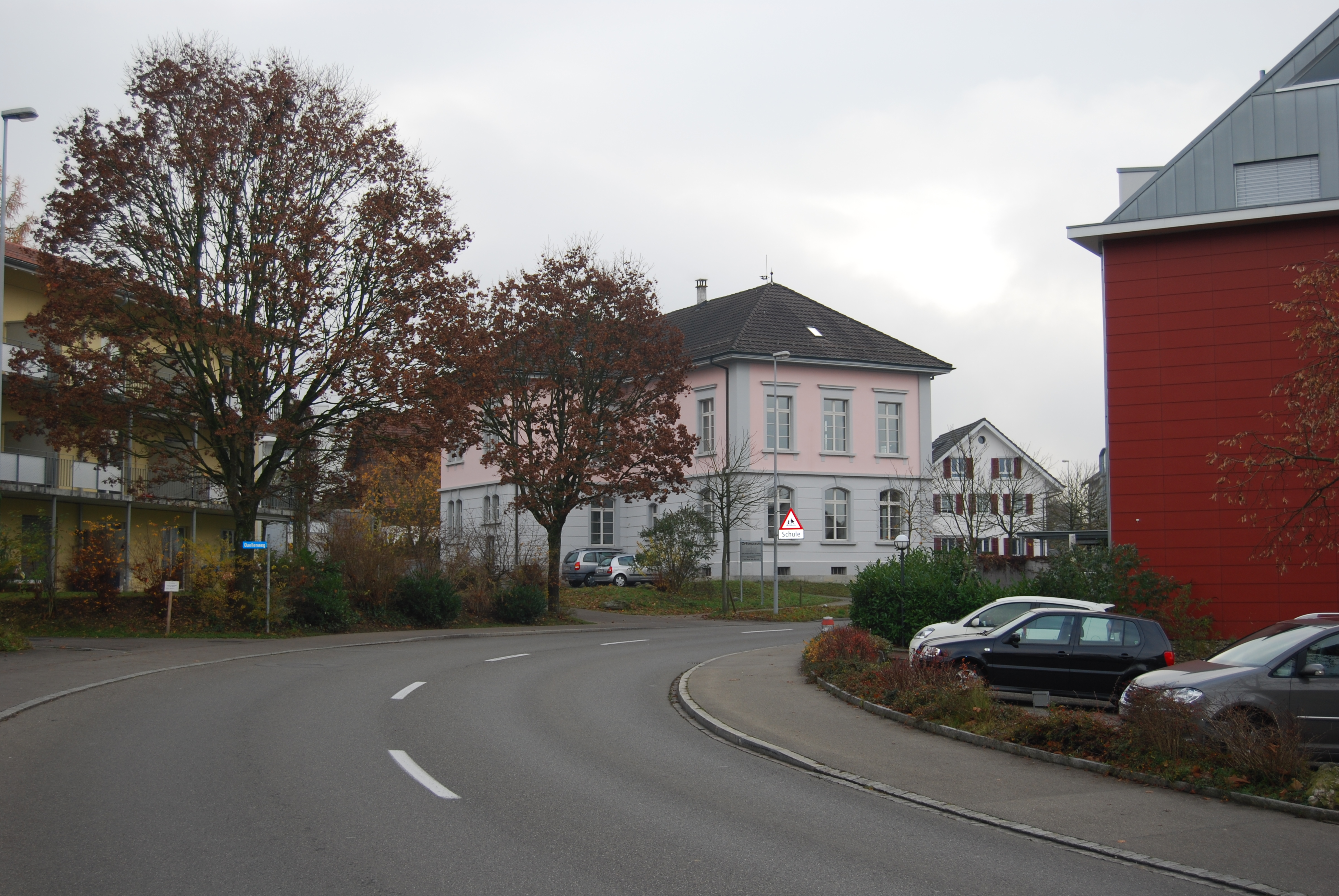 School at Niederrohrdorf, canton of Aargau, SwitzerlandEsperanto: Lernejo en Niederrohrdorf, Kantono Argovio, Svislando